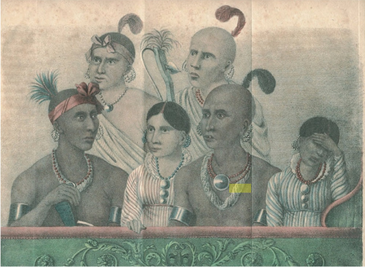 Illustration by Luther Brad, published in _Six Red Indians_, reprinted in An Osage Journey to Europe, 1827–1830: Three French Accounts. Front right are Kihegashugah, or "Little Chief" and his two wives, Sacred Sun and Hawk Woman.